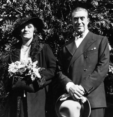 Actors Mary Marquet (1895-1979) and Victor Francen (1888-1977) on their wedding day in 1934.